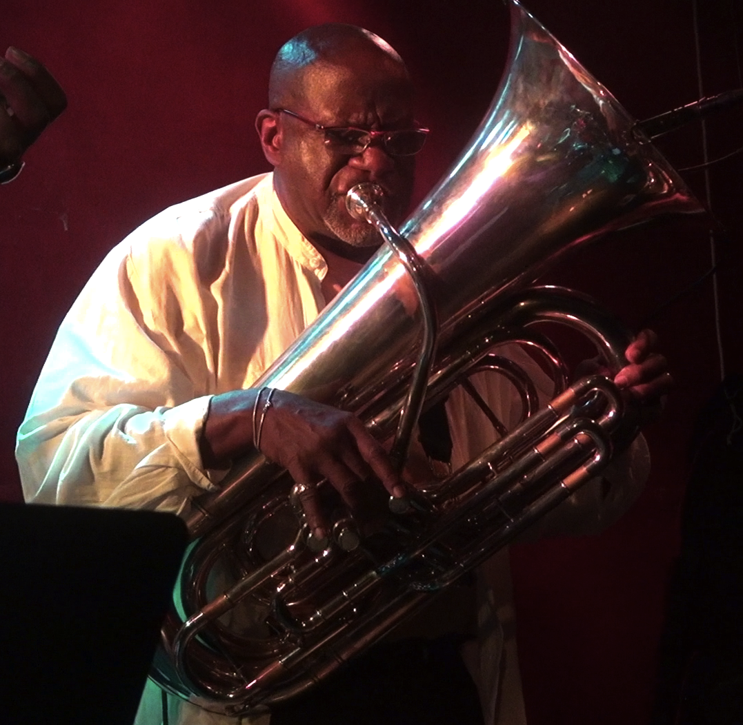 Bob Stewart playing Tuba at Pianos in NYC with Eli Yamin